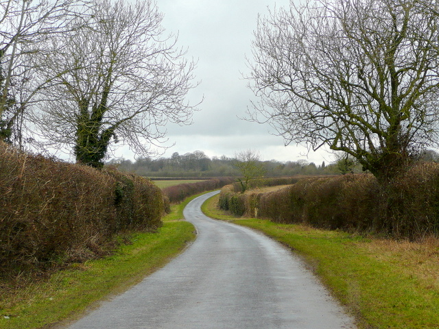 Privet Lane Leading north from Fyfield towards the A342 Andover Road.